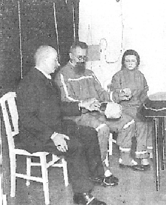 The medium Lajos Pap (centre).